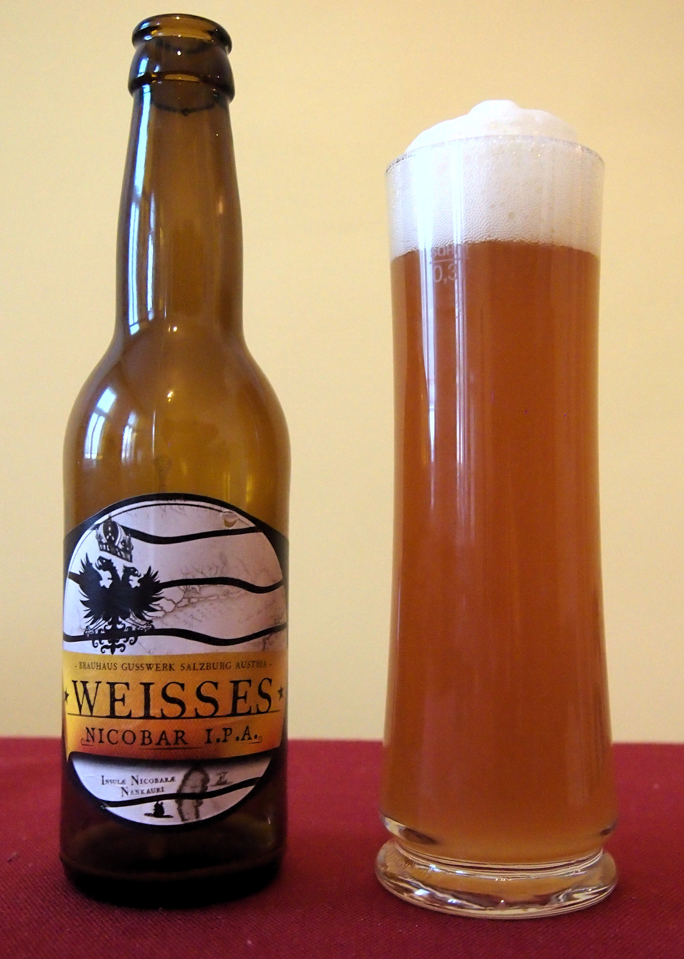 White Nicobar India Pale Ale, produced by Bauerei Gusswerk, Römerstrasse 3, 5322 Hof bei Salzburg. Alc. 6,4% vol., 14,8° gravity.